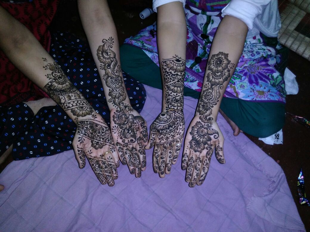 Mix Mehendi Art; using Arabic and Indian Design